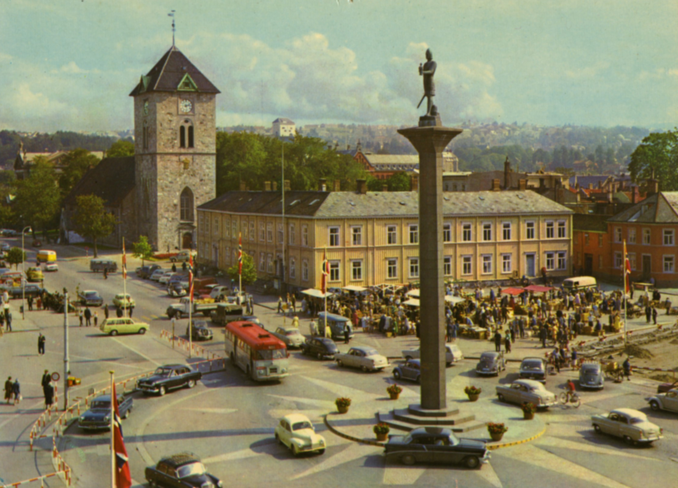 Format: Postkort, fotopositiv Dato / Date: Ukjent, antakelig tidlig 1960-tall Fotograf / Photographer: Ukjent (SAGA Kunstforlag AS) Sted / Place: Trondheim, Torget Eier / Owner Institution: Trondheim byarkiv, The Municipal Archives of Trondheim Lenke / Link: Wilhelm Rasmussen (Wikipedia) Arkivreferanse / Archive reference: Tor.Hxx.Bxx.F5169 Google Streetview: g.co/maps/wackt